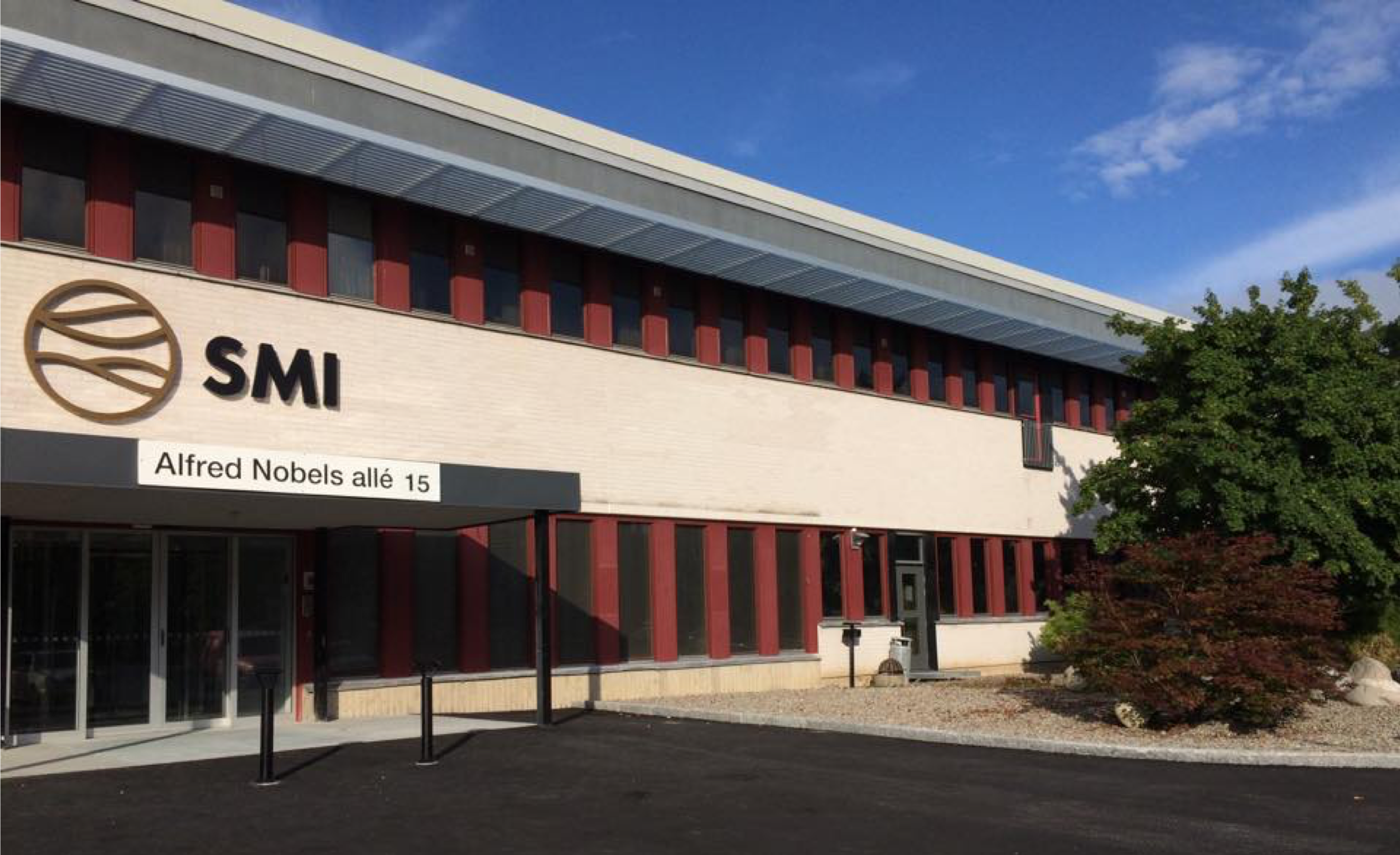 SMI:s entré on campus Flemingsberg in Huddinge, Stockholm